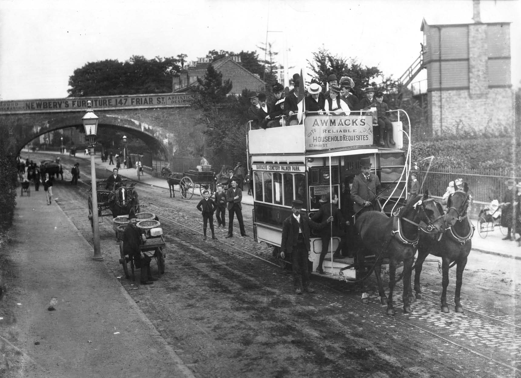 Oxford Road, Reading, looking eastwards to the West Reading railway bridge, 1893. The bridge carries advertising for Newbery's Furniture. To the right of it is a signal-box. Various carts are in the road, and there is a handcart with four large open baskets on it. Horse-tram No. 2 has stopped, and everyone, the top-hatted driver and conductor, the passengers and passers-by, is posing for the camera: this is the first day of operation for the double-decked trams, following a fire at the depot. The tram carries advertising for Awmack's hardware. 1890-1899 : photograph by Walton Adams. There is a postcard version at Dyix 1243743.